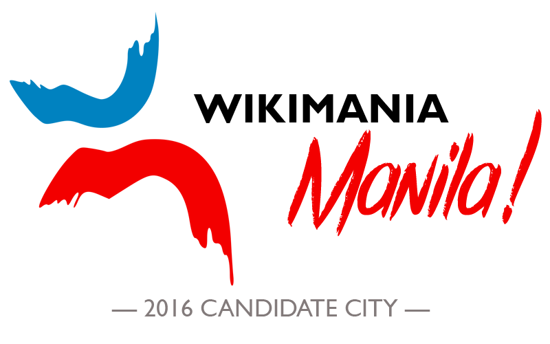 Candidate logo for a prospective Wikimania 2016 bid for Manila. This logo is temporary and will be replaced by the final logo when designed.